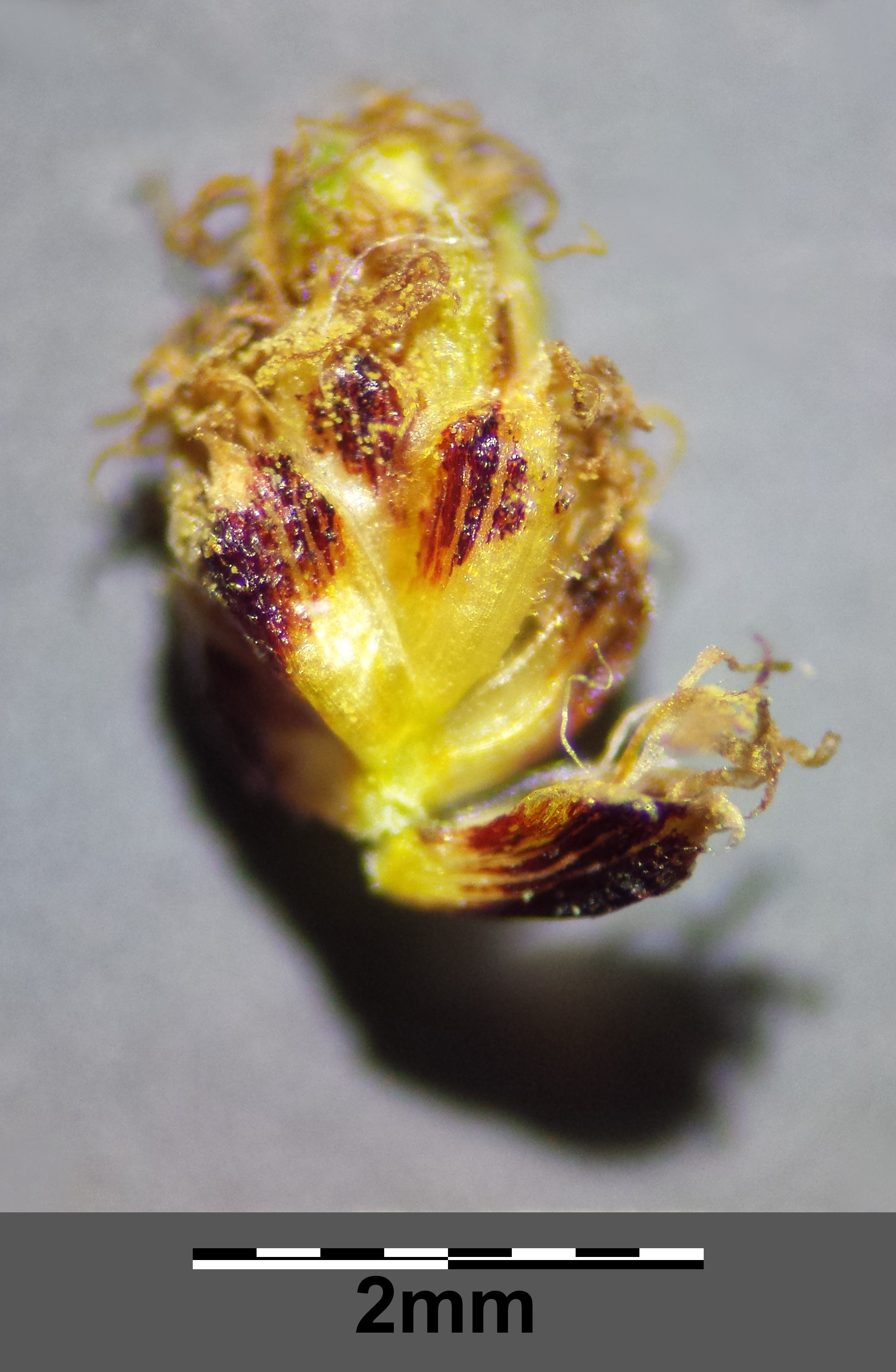 Spikelet Taxonym: Scirpoides holoschoenus ss Fischer et al. EfÖLS 2008 ISBN 978-3-85474-187-9 Location: ArbeiterInnenstrand at Alte Donau (former Arbeiterstandbad), Vienna-Donaustadt - ca. 160 m a.s.l. Habitat: shore